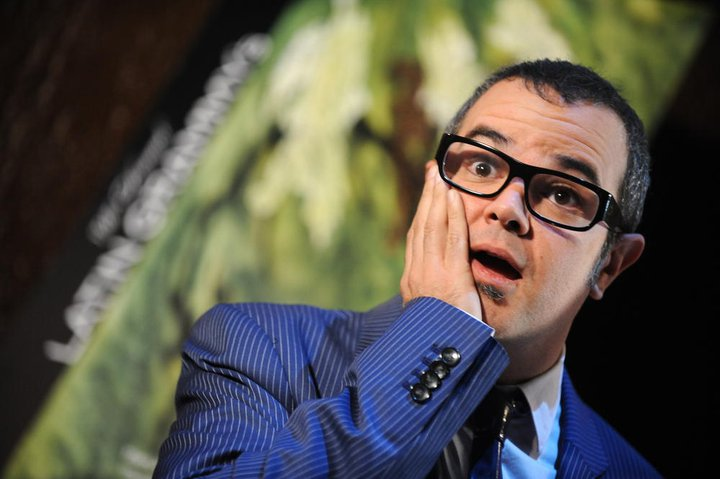 Aleks Syntek